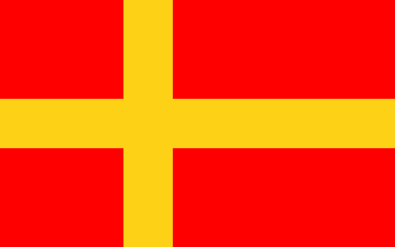 Flag of National Gathering (Nasjonal Samling) 1933-1945